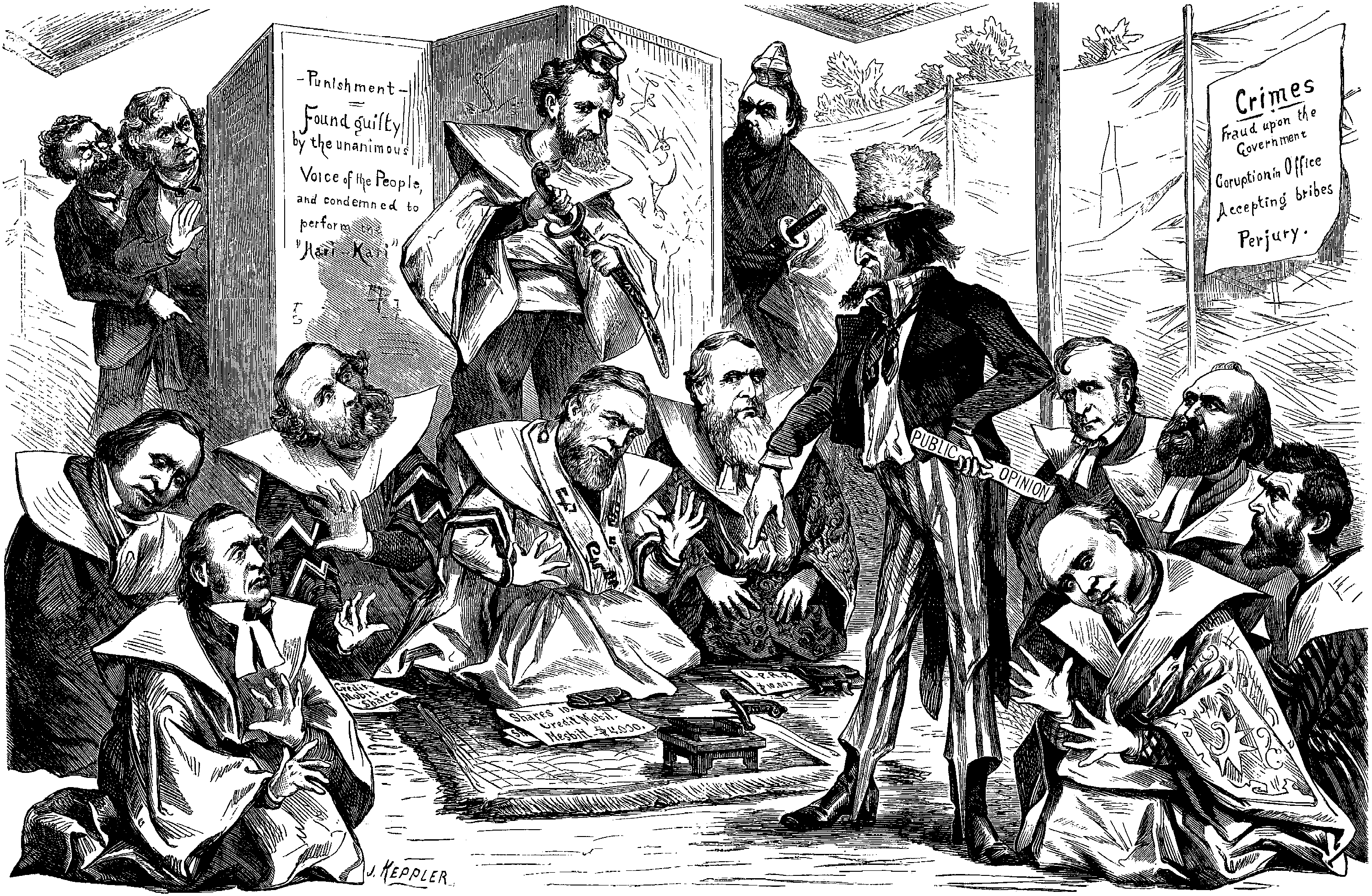 Editorial cartoon: Uncle Sam directs Vice President Schuyler Colfax and member of the U.S. Congress disgraced by their involvement in the Crédit Mobilier of America scandal to commit Hari-Kari. Carl Schurz and Charles Sumner peer out from behind a screen.